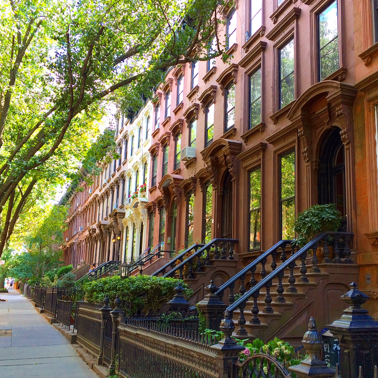 Park Slope,Brooklyn